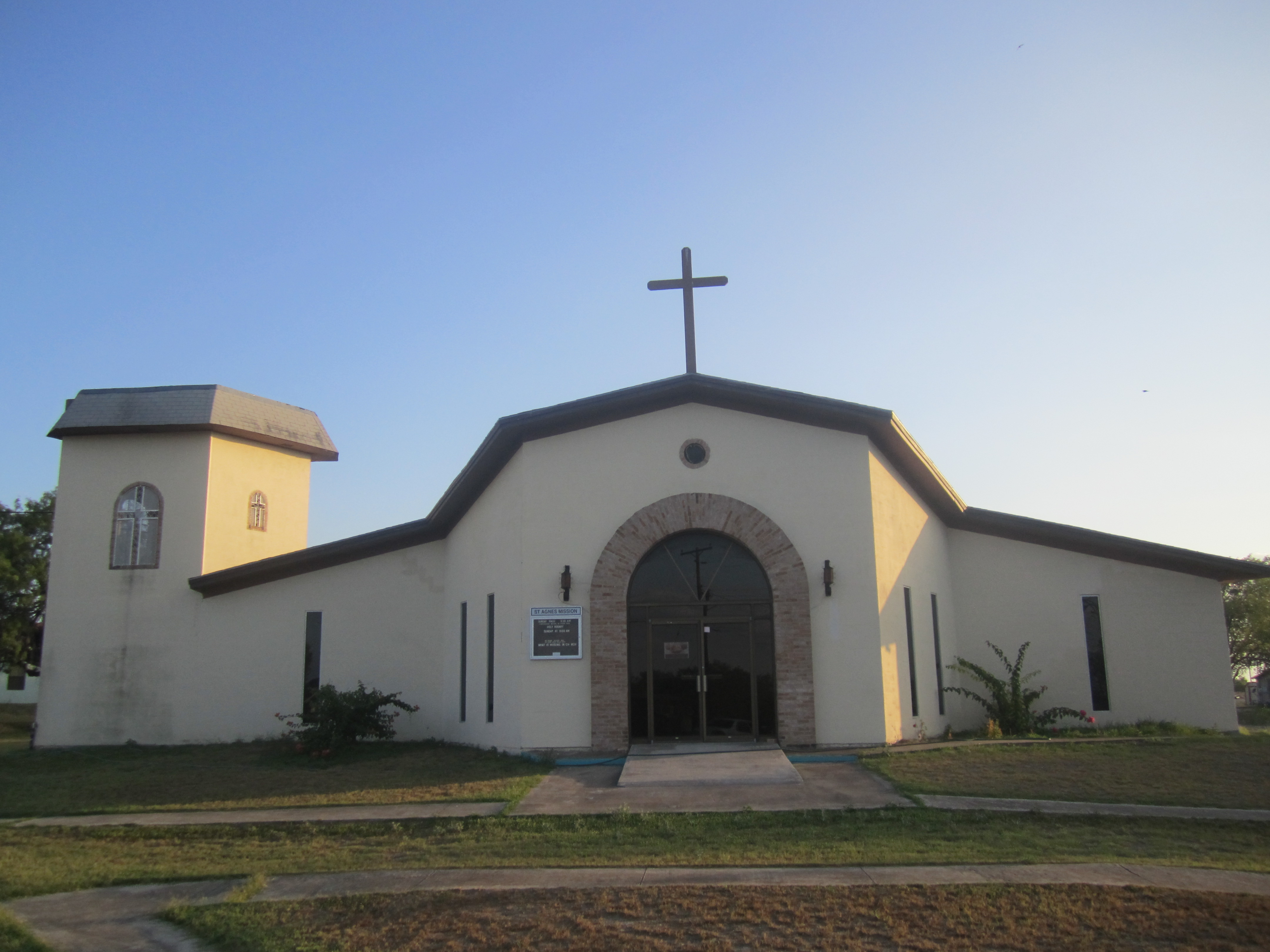 I took photo of St. Agnes Catholic Mission in Mirando City, TX, using Canon camera.